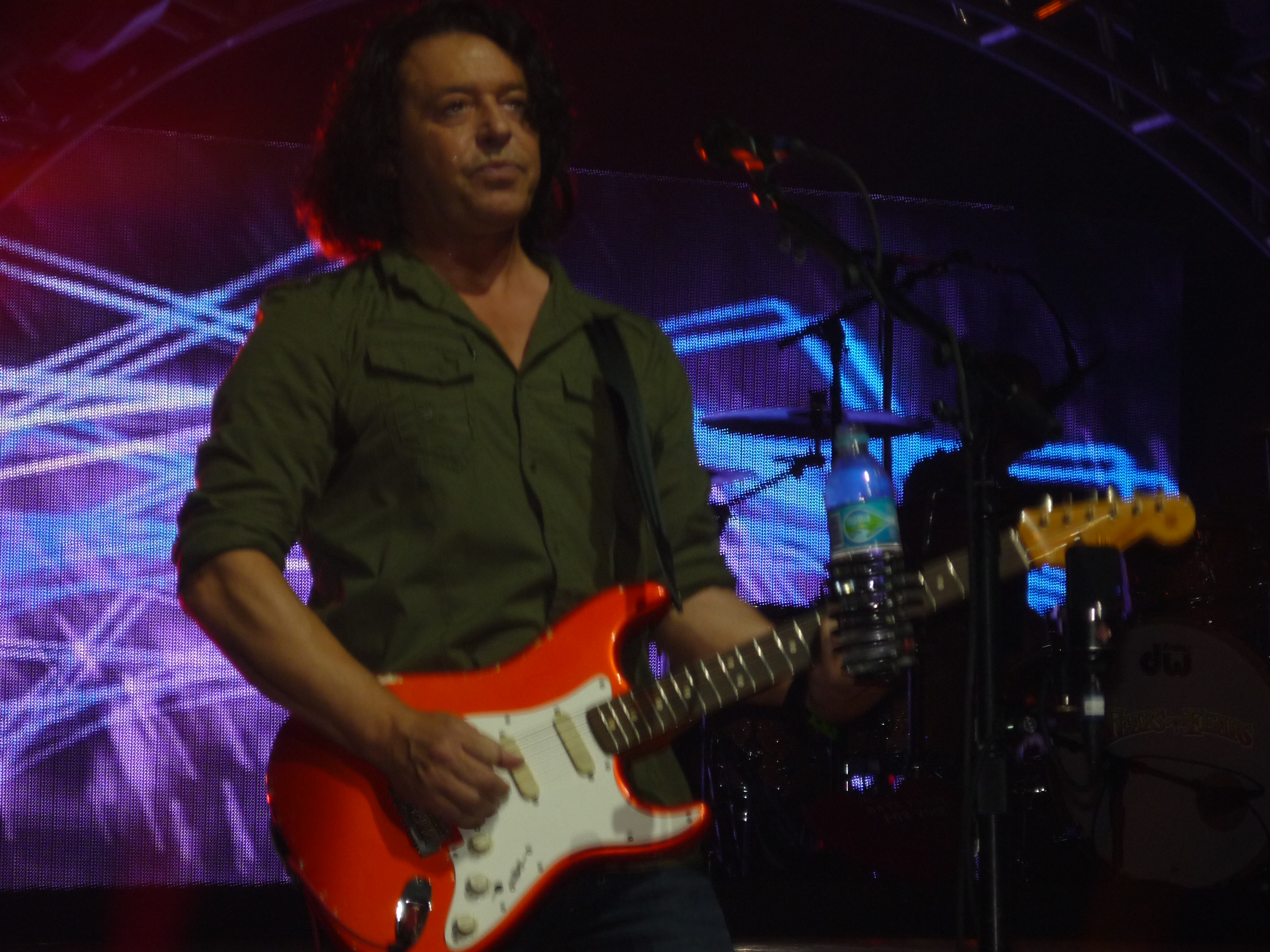 Roland Orzabal in a Tears for Fears presentation, in São Paulo - Brazil.